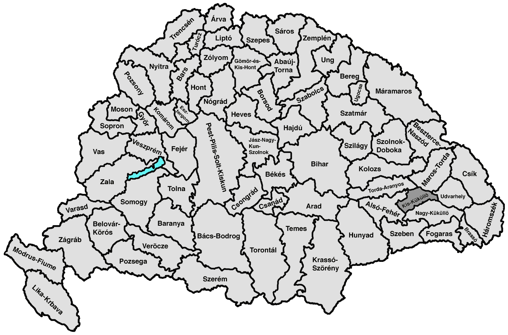 own edit of Image:Zala.png